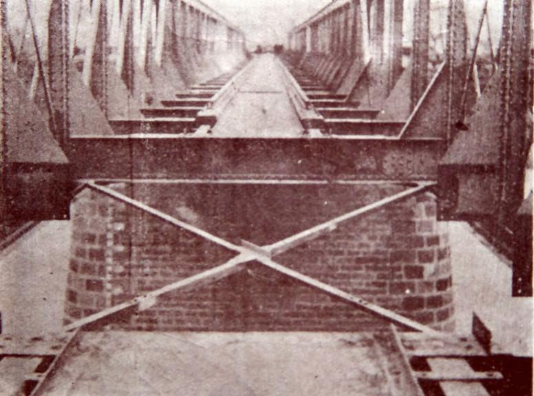 An old chinese railway in the 1930s (平漢鐵路)